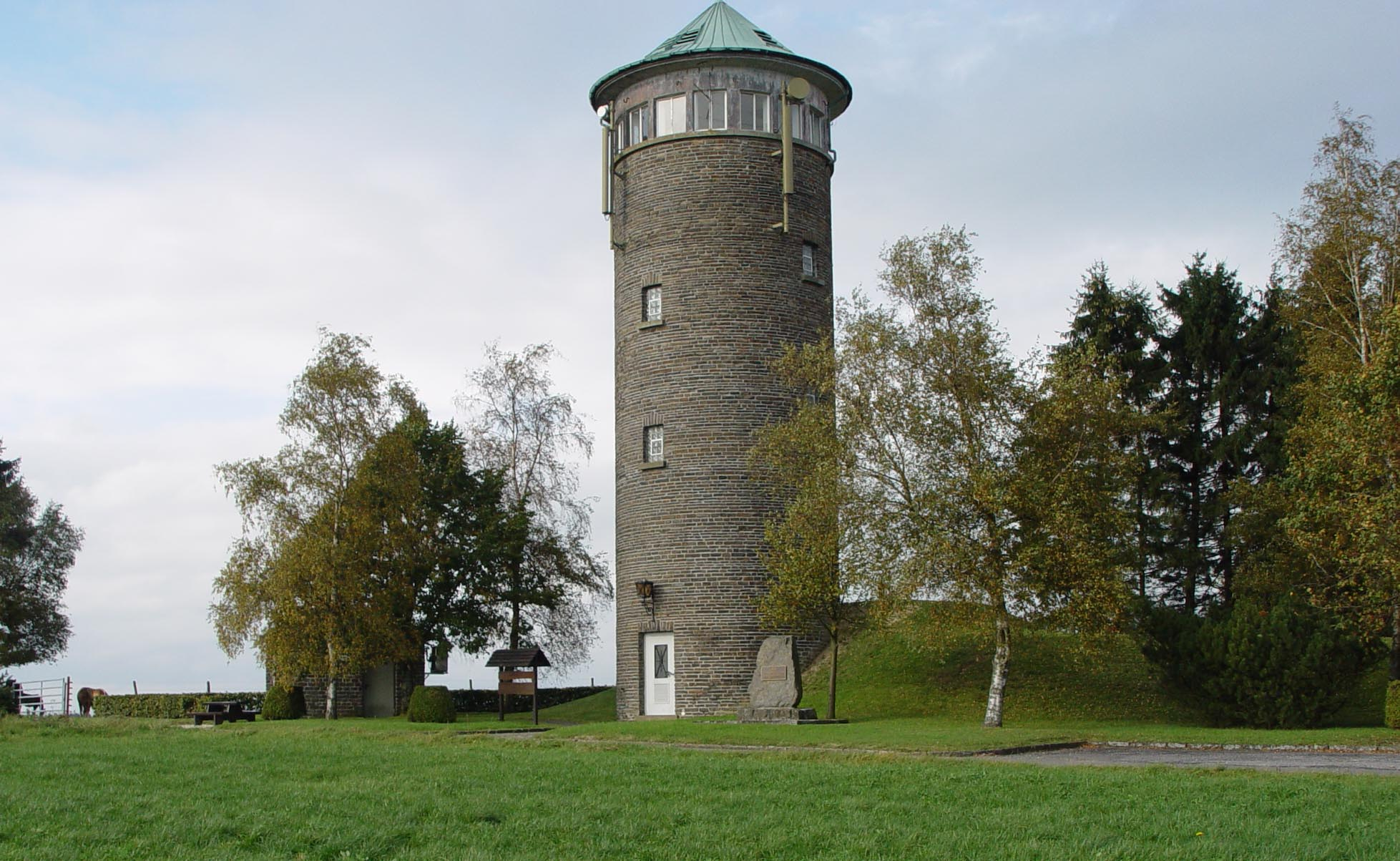 Sujet:Second highest point in the Grand Duchy of Luxembourg: "Buergplaz" in Huldang (local name) Source:Photo taken by User:Cornischong Lizenz:GFDL